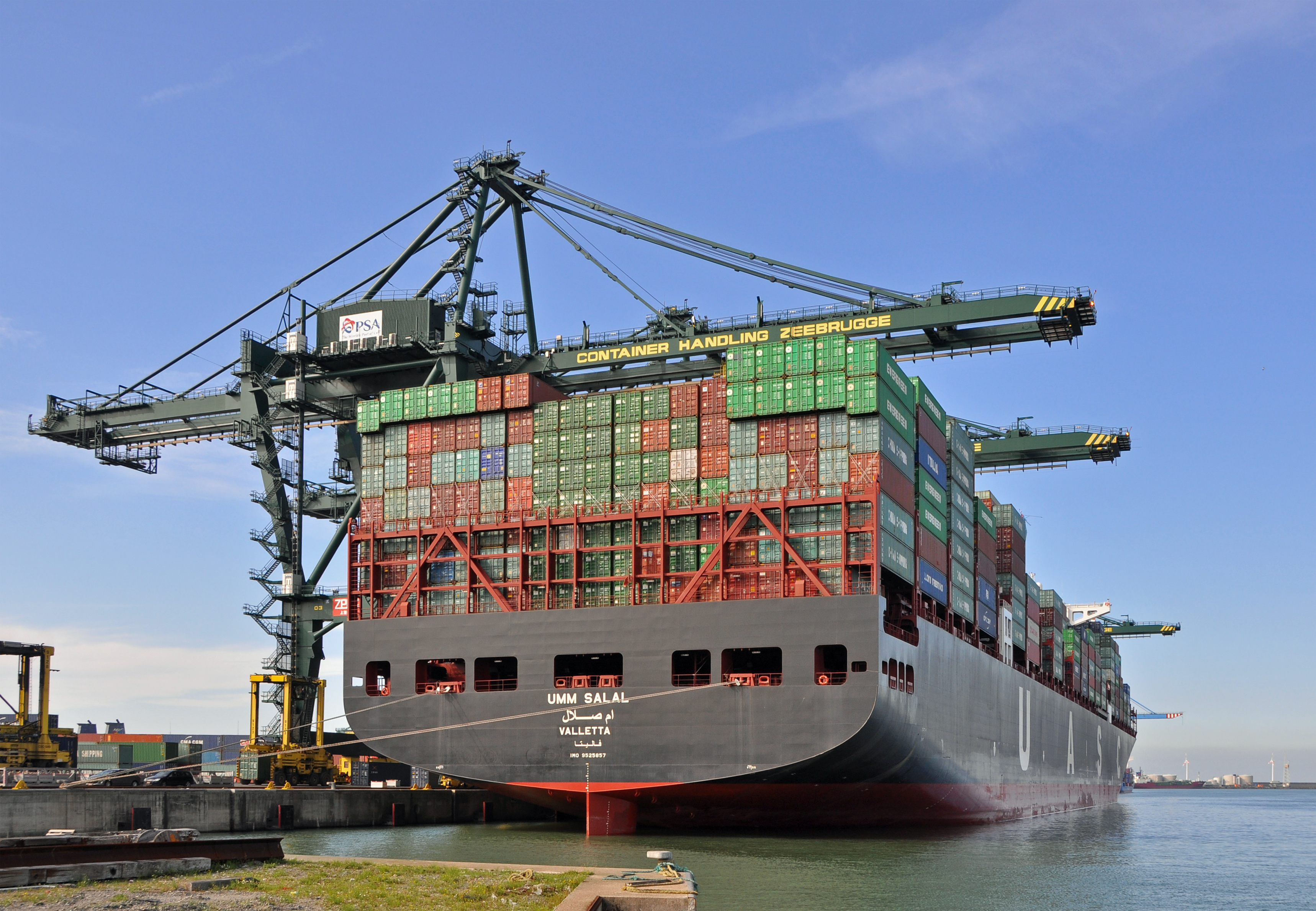 13,470 TEU container ship Umm Salal in the port of Zeebrugge (Belgium)